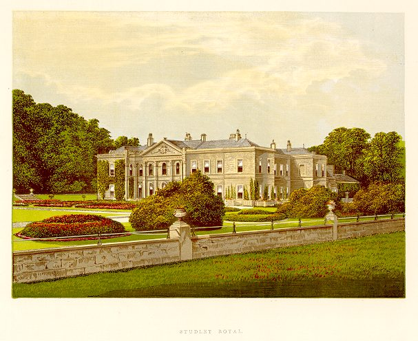 Studley Royal from Morris's County Seats (1880).